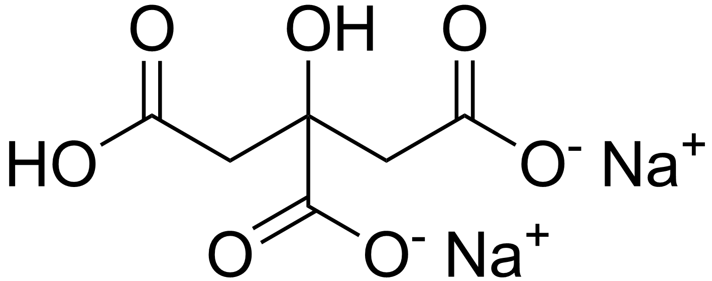 Chemical structure of disodium citrate